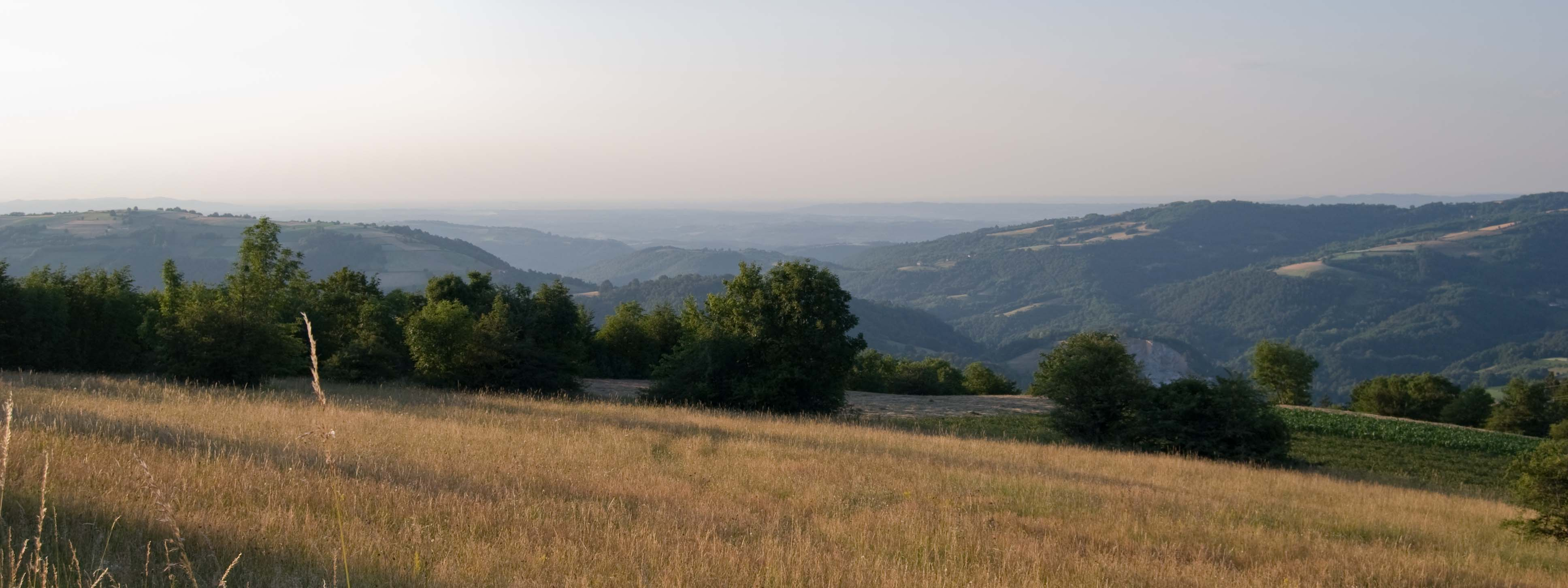 Ba village in central Serbia, view from Rajac mountain.